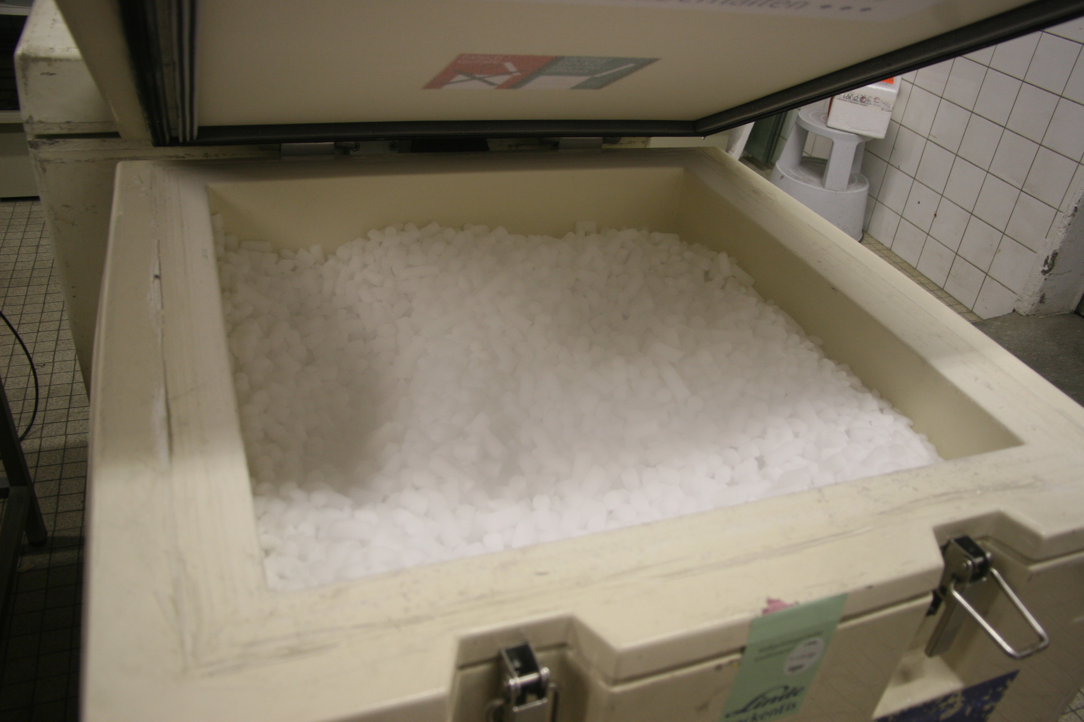 Container for dry ice of the Linde AG company